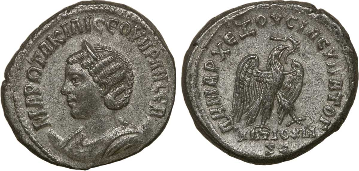 Otacilie-Sevère